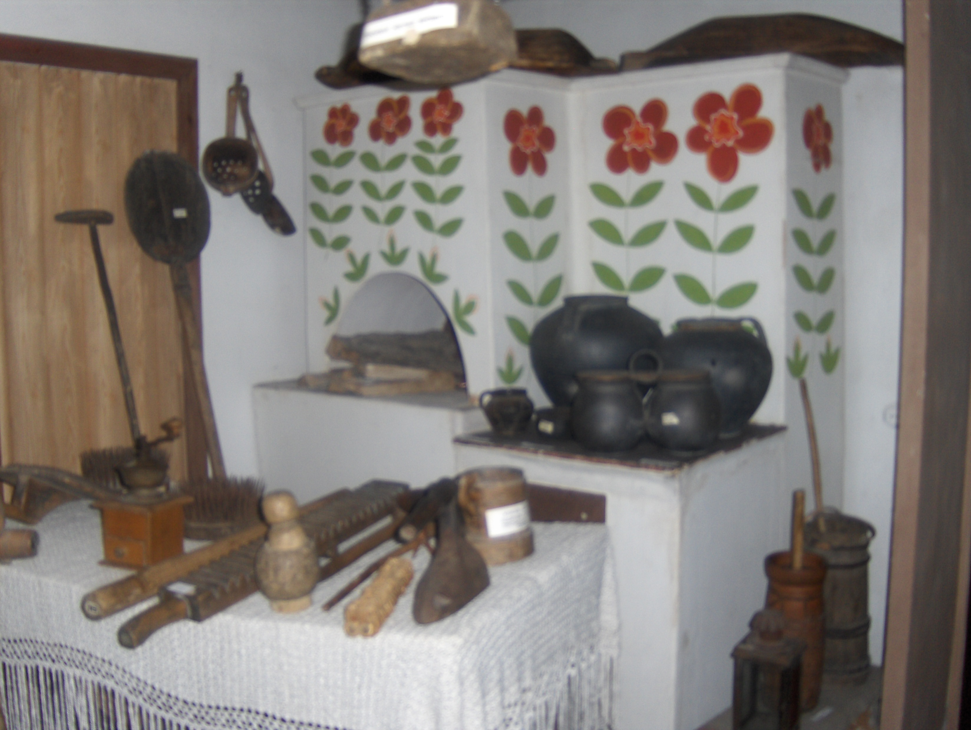 Historical display of traditional Ukrainian inner household and utensils. Berezhany town museum. Berezhany, western Ukraine.